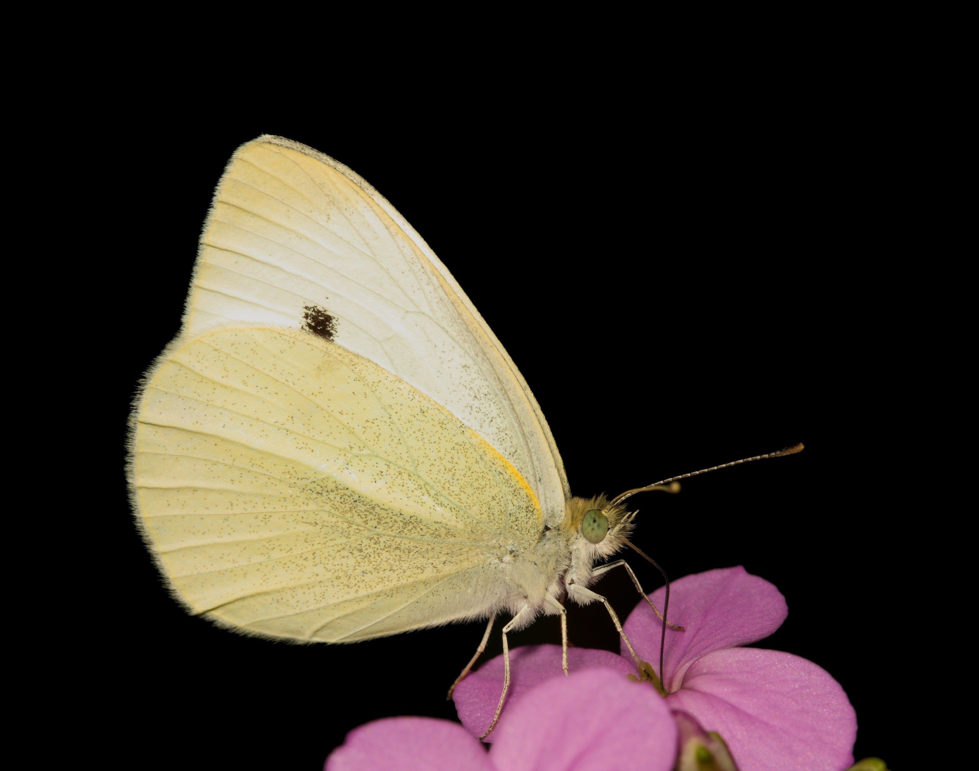 Small White (Pieris rapae)